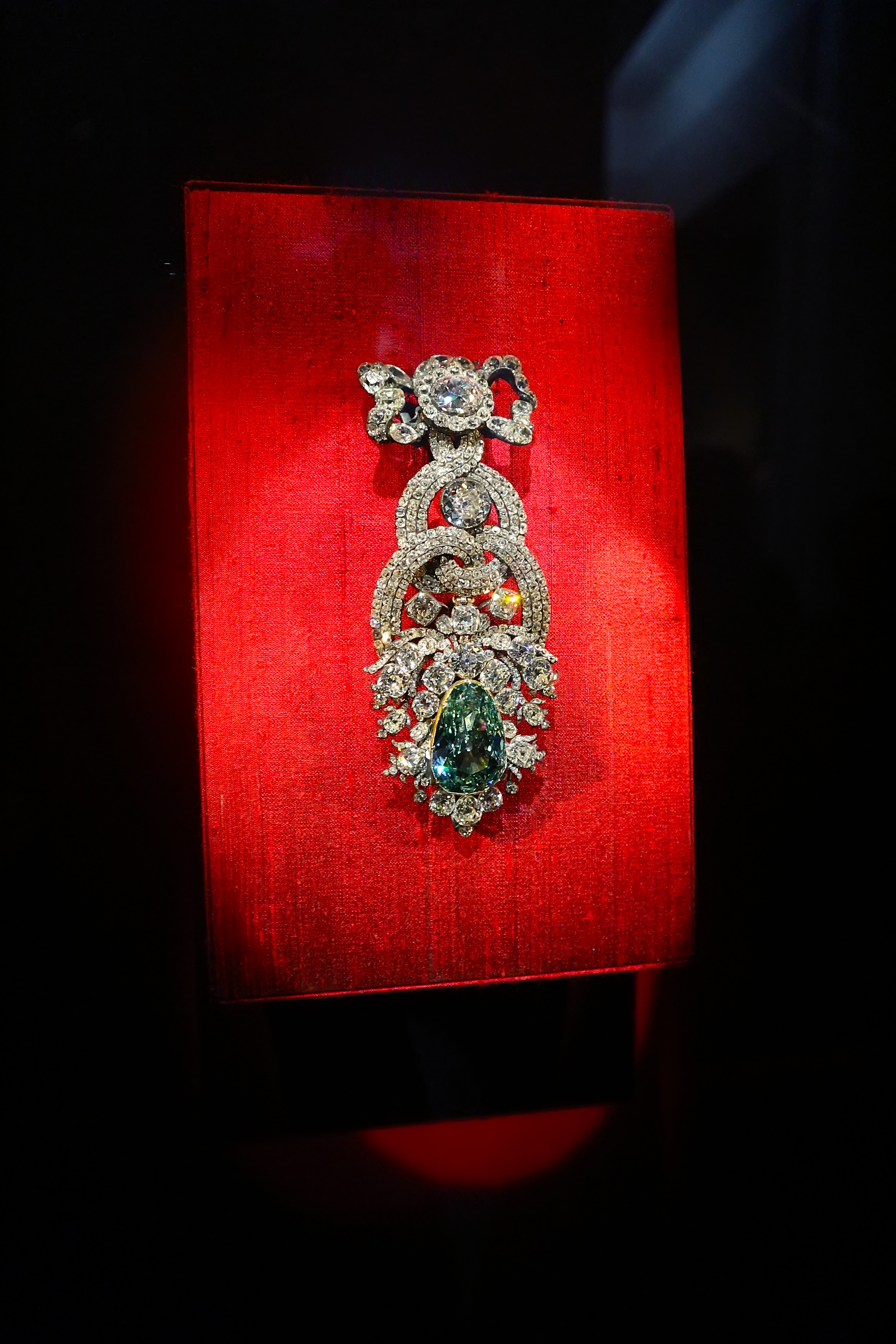 The Dresden Green Diamond.Located in the Grünes Gewölbe in Dresden Dresden Castle